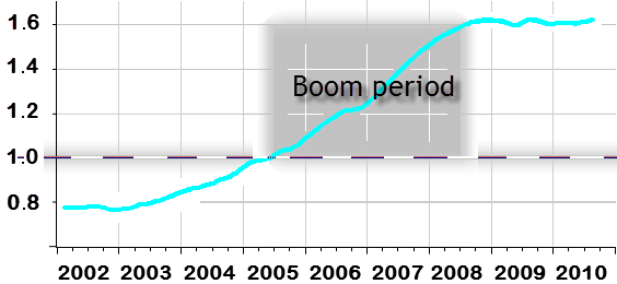 Loan-deposit ratio in Slovenia - including the Boom Period.